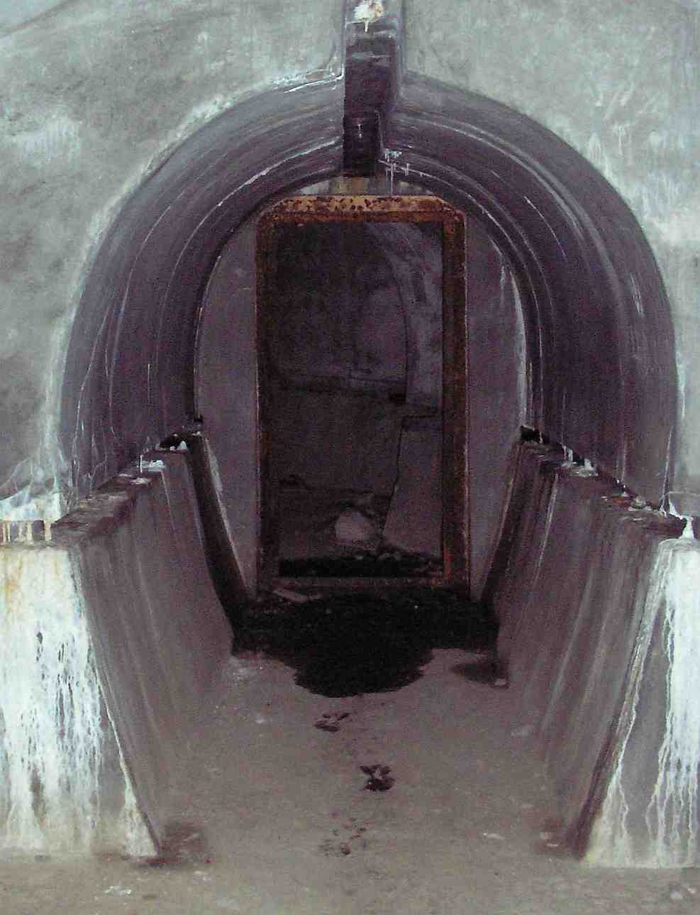 Quattro Sorelle battery (french/italian border near Bardonecchia, Cottian Alps)